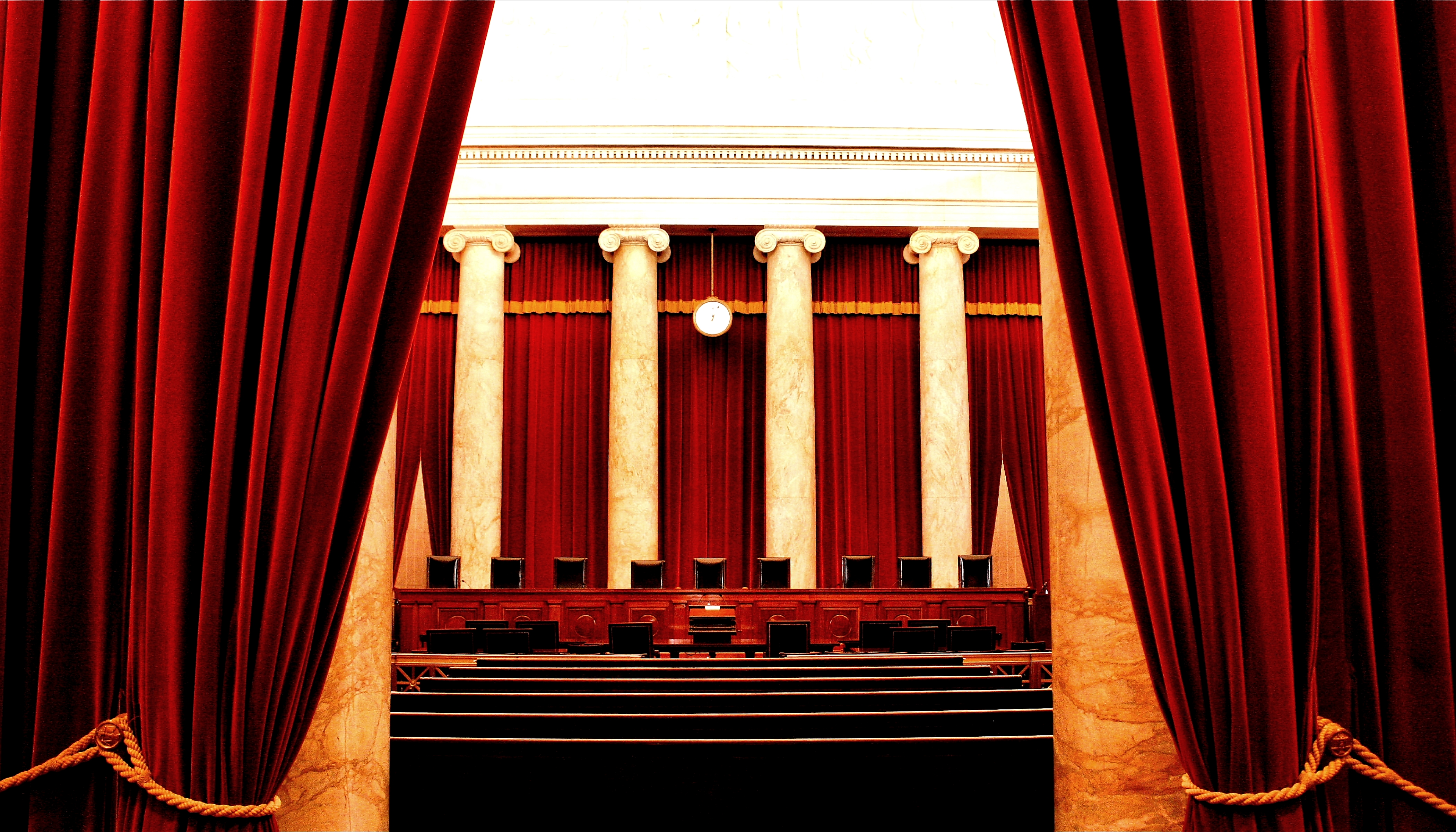 The inside of the United States Supreme Court. In the photo are the nine chairs of the Supreme Court Justices.